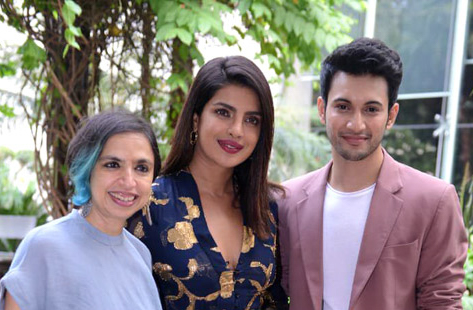 Shonali Bose, Priyanka Chopa and Rohit Saraf promoting their film The Sky Is Pink in Delhi